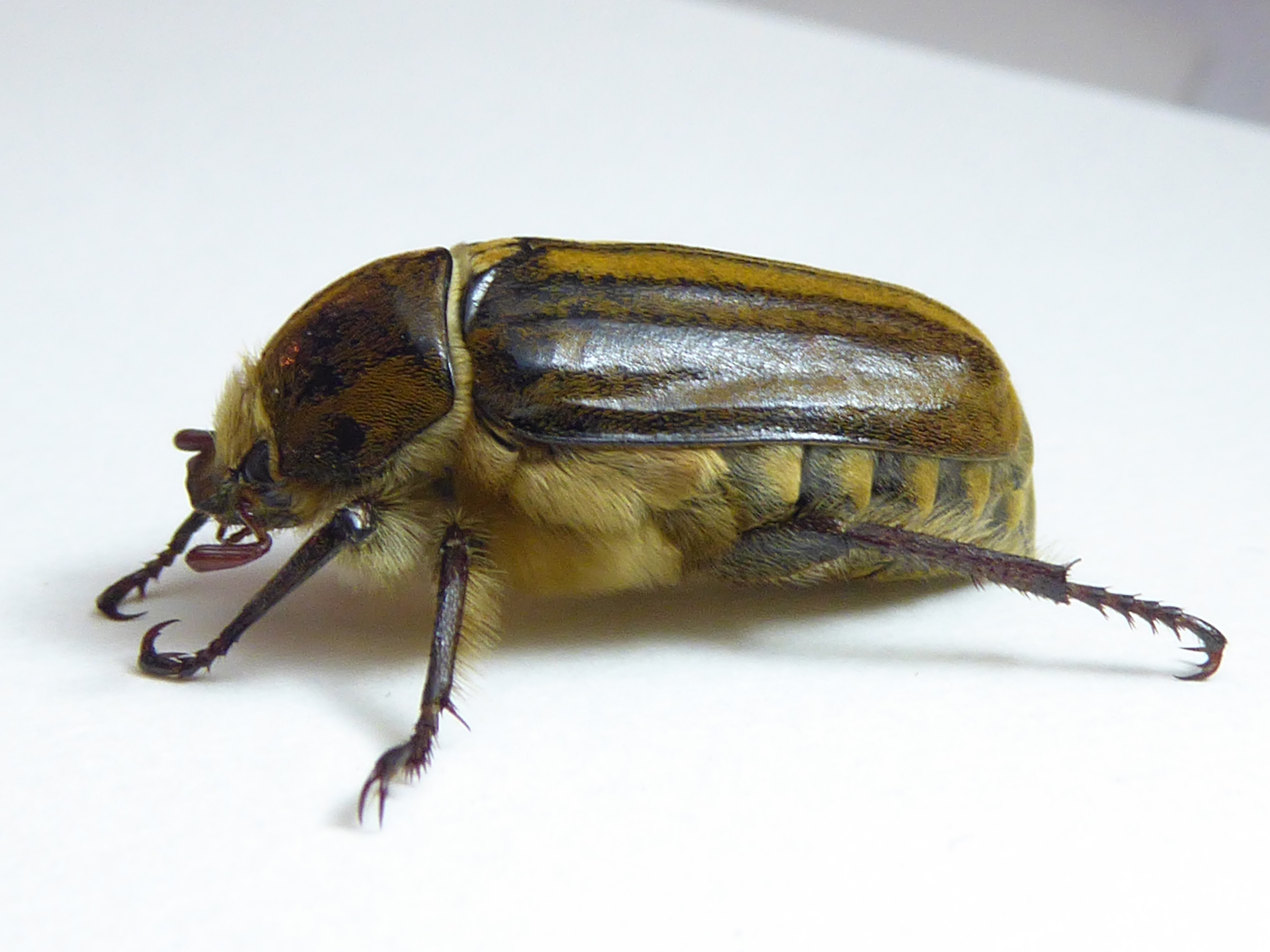 Anoxia matutinalis matutinalis photographed in Piazzo (Segonzano, Trentino, Italy)